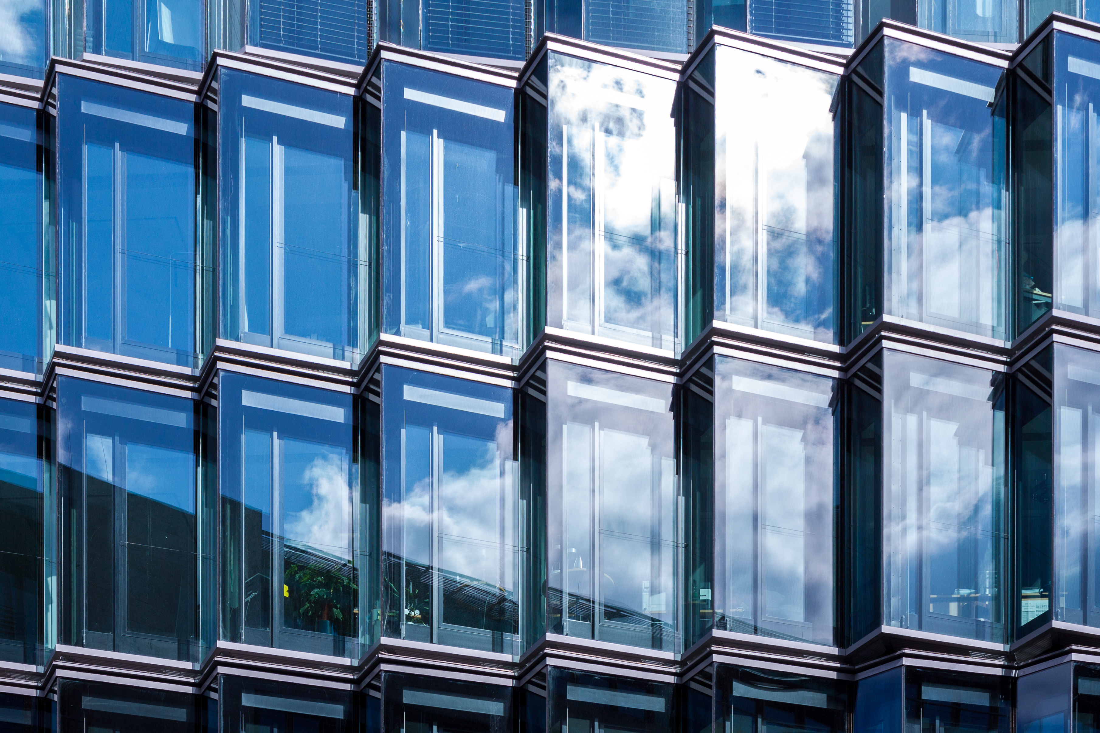 Glass facade of the office building Wilhelmstrasse 65 in Berlin-Mitte. The building belongs to the German parliament.